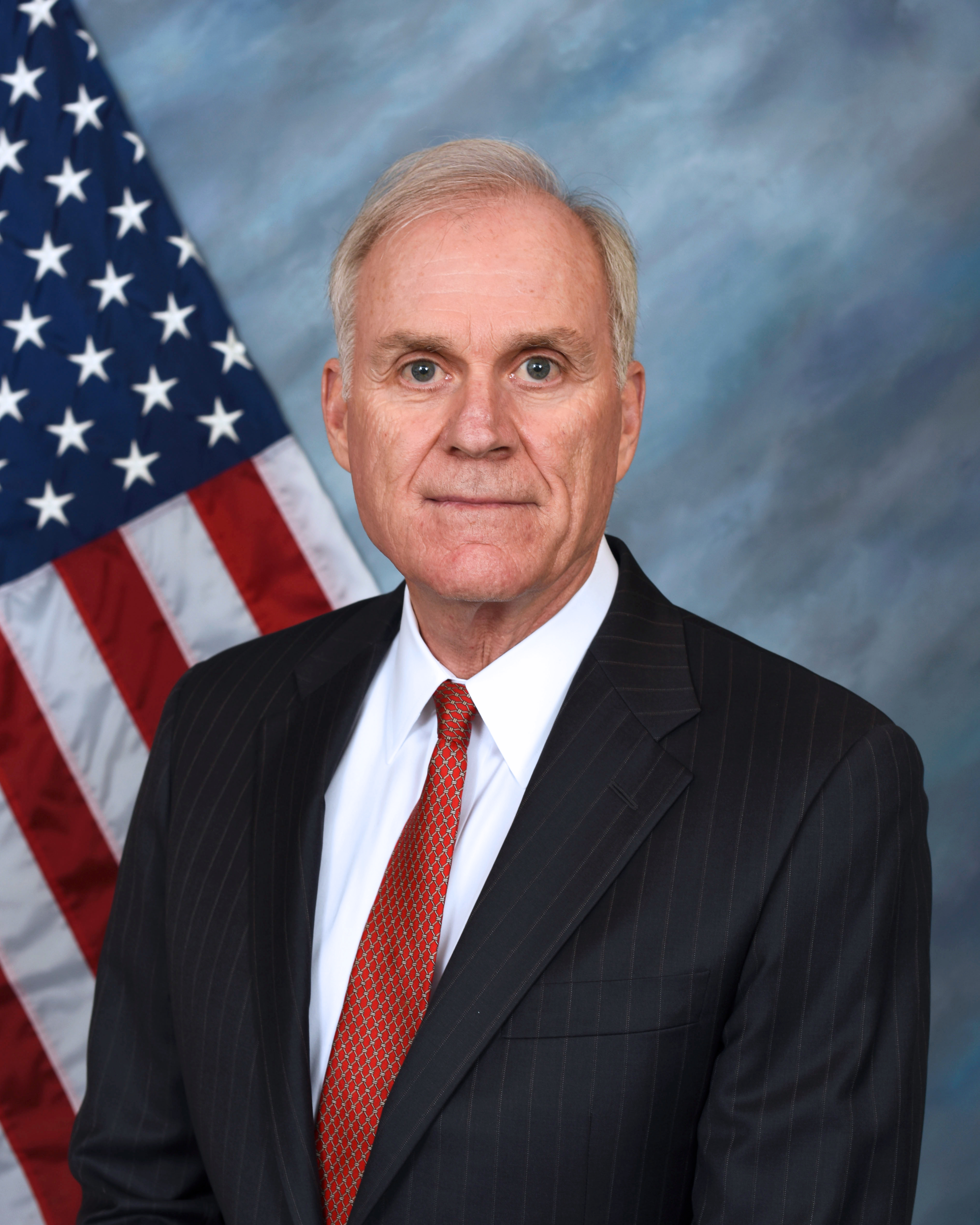 Richard V. Spencer, 76th secretary of the Navy